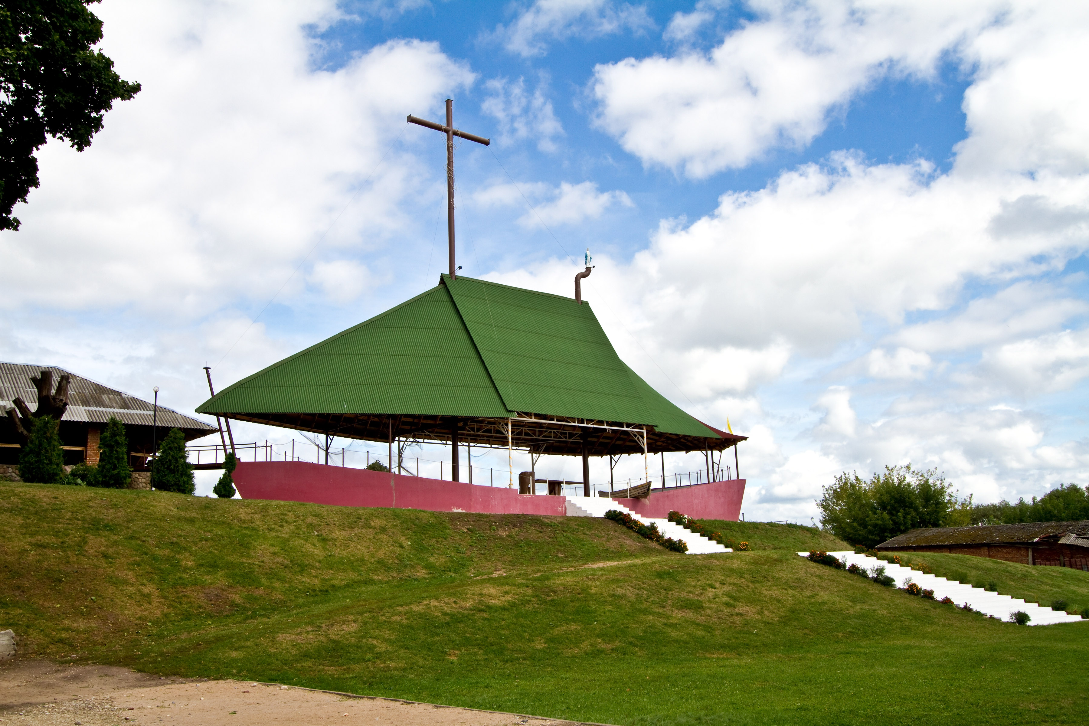 Ground near the catholic church of Virgin Mary, Brasłaŭ. Viciebsk province, Belarus.